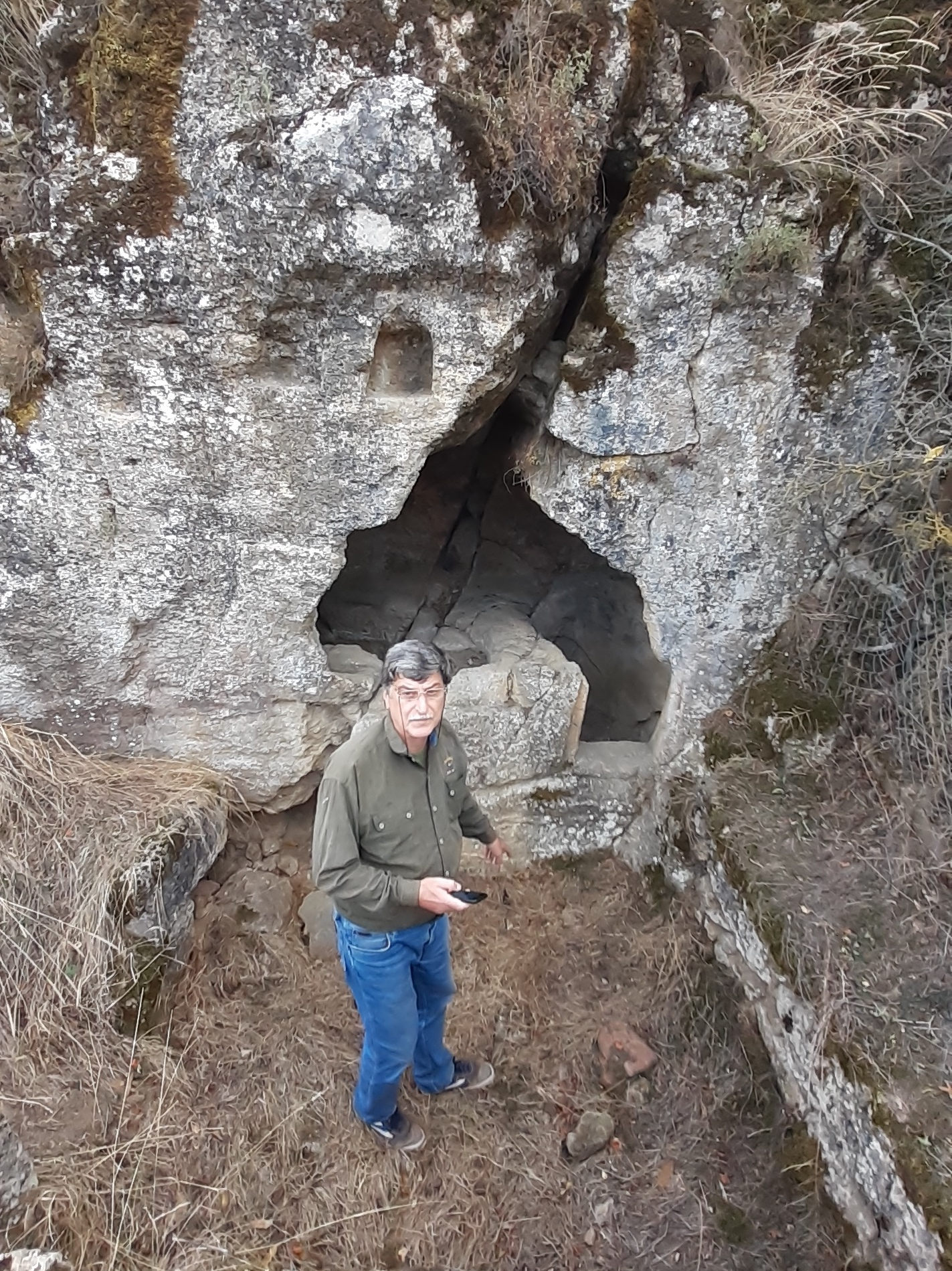 Prof. Murtazali Gadjiev - Russian-Dagestani archaeologist; head of Archeology Department of the Daghestan Scientific Centre of Russian Academy of Sciences - Prof. Gadjiev is specialised in the history of Derbent (Darband) and the Sasanian-era Persian presence in Caucasus. -- Photo: Persian Dutch Network (2019)